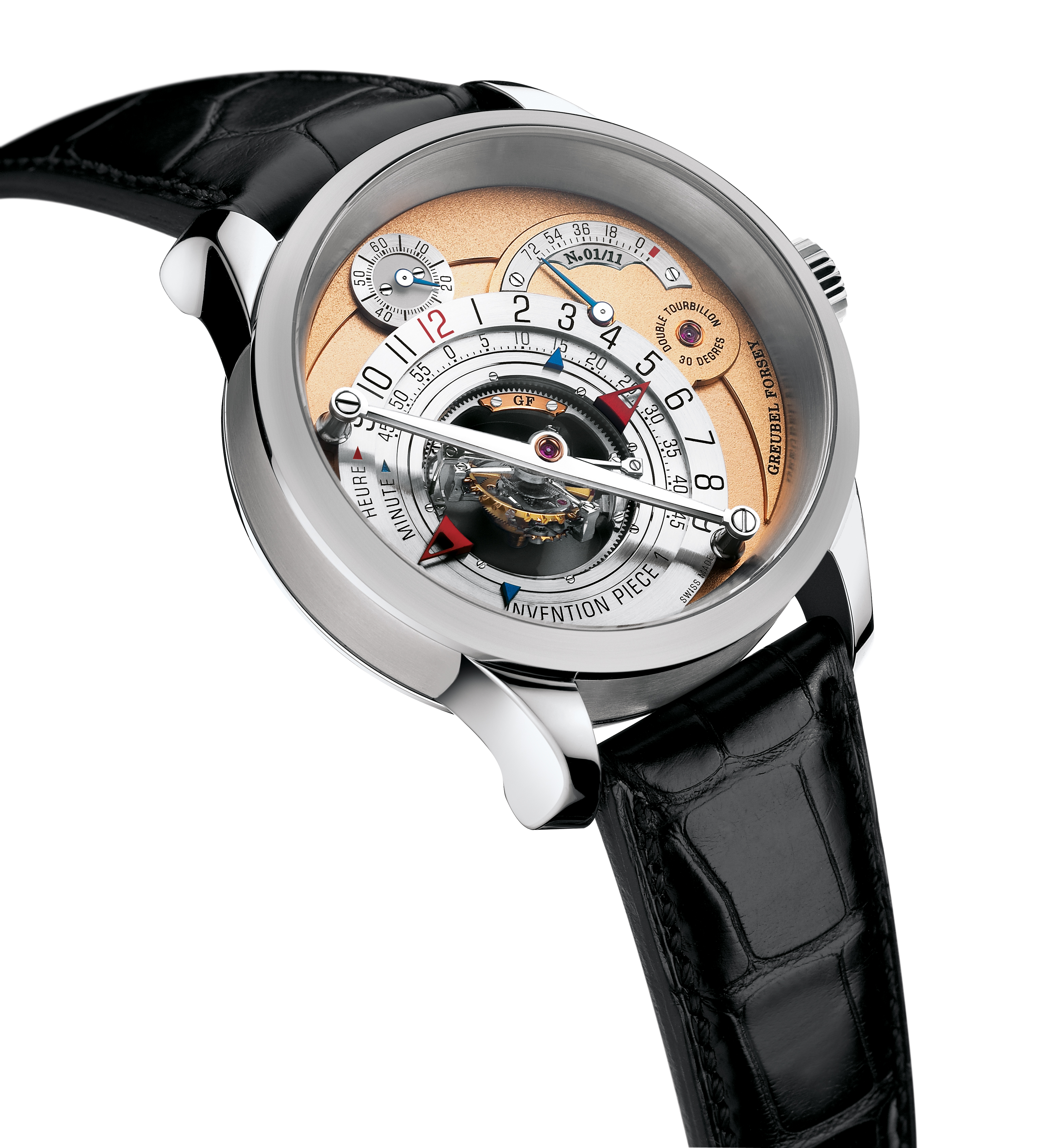 Greubel Forsey company develops extremely high-end horological complications. Greubel Forsey Invention Piece 1